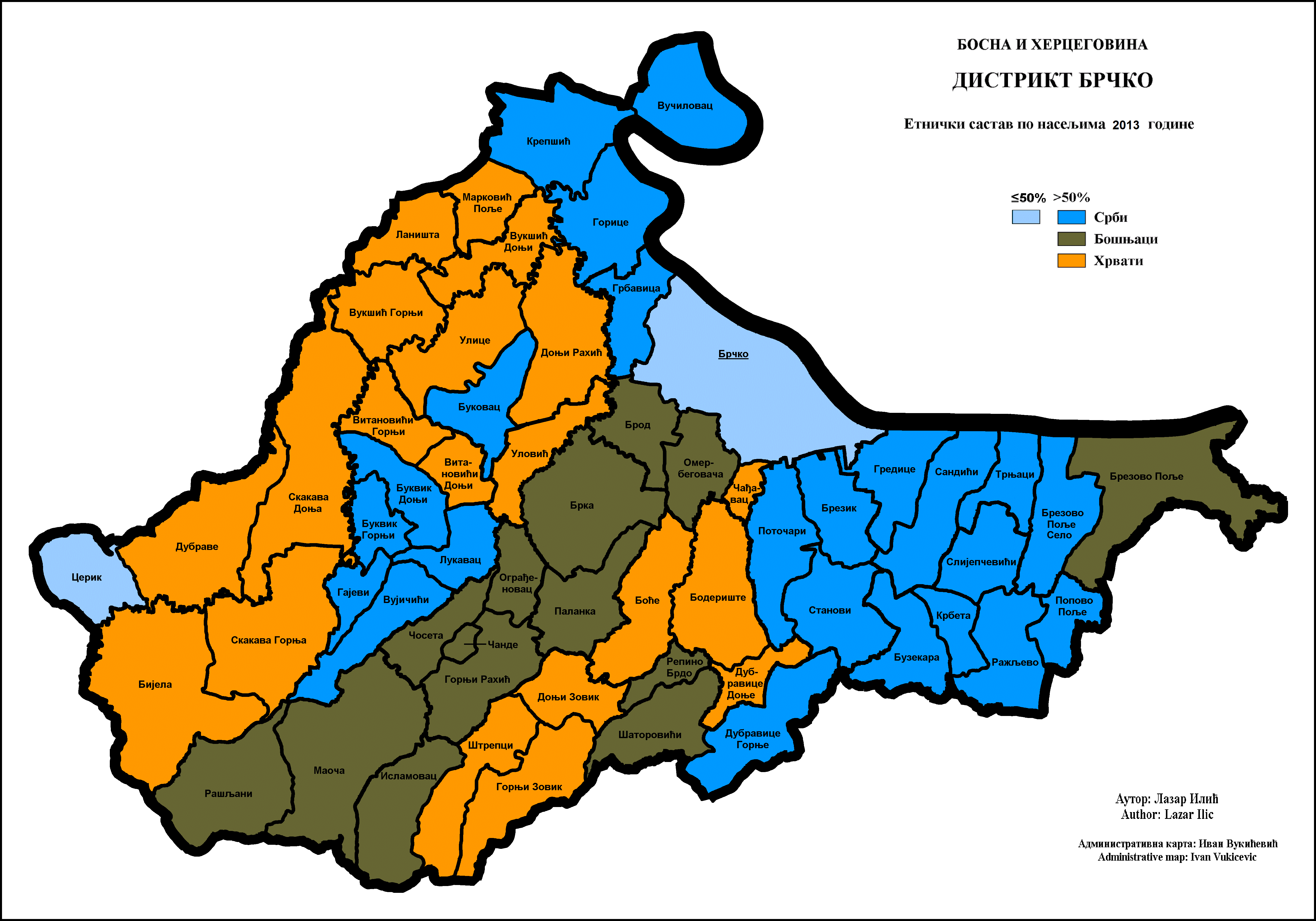 Ethnic structure of Brcko according to the controversial 2013 census.